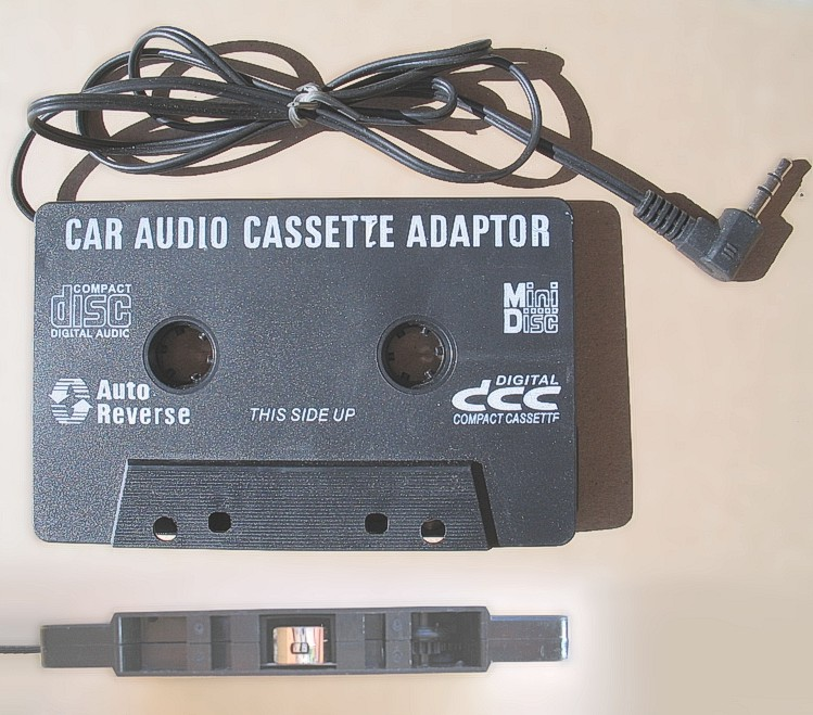 Car audio cassette adaptor